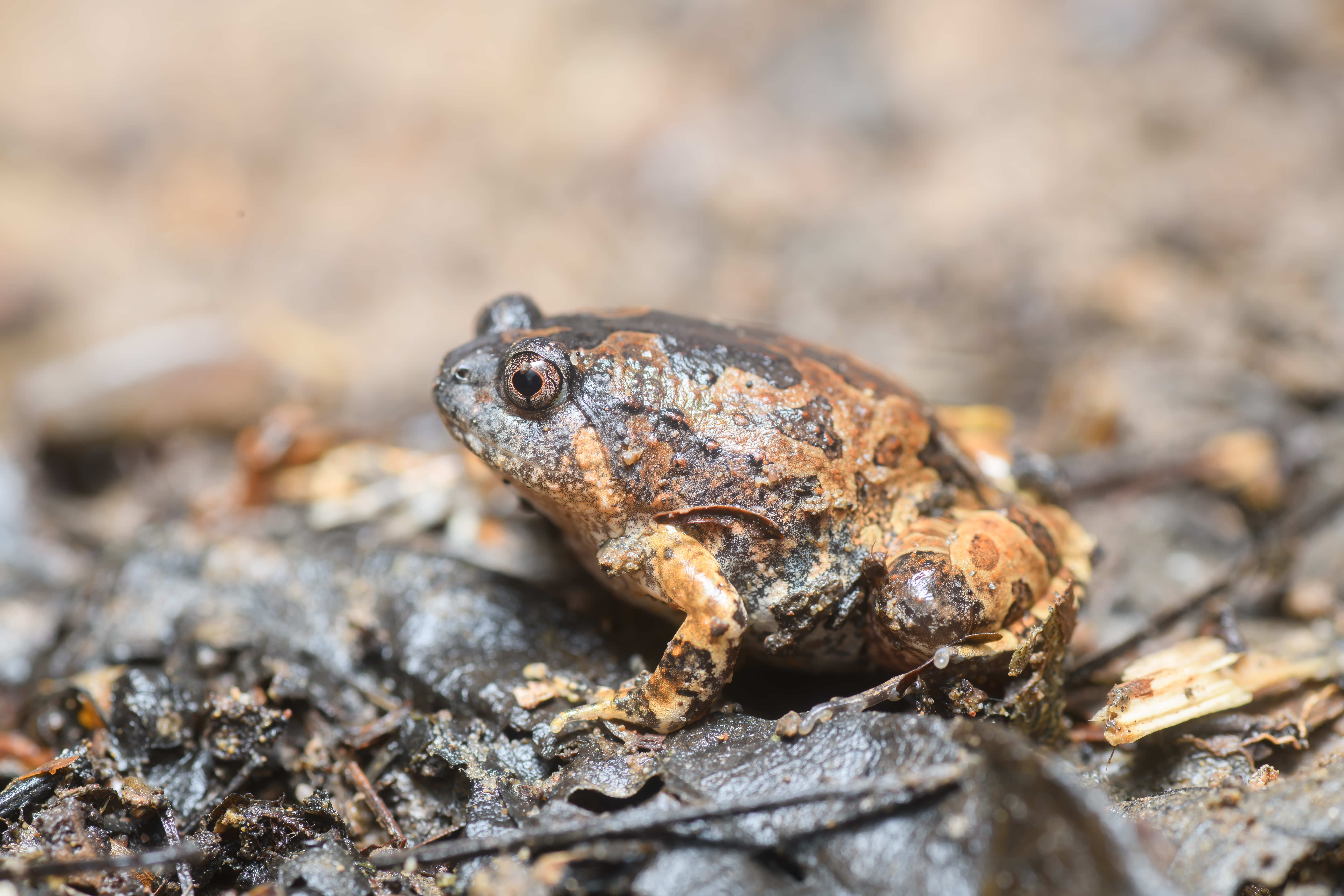 Glyphoglossus guttulatus, Striped spadefoot frog (subadult) - Kaeng Krachan National Park